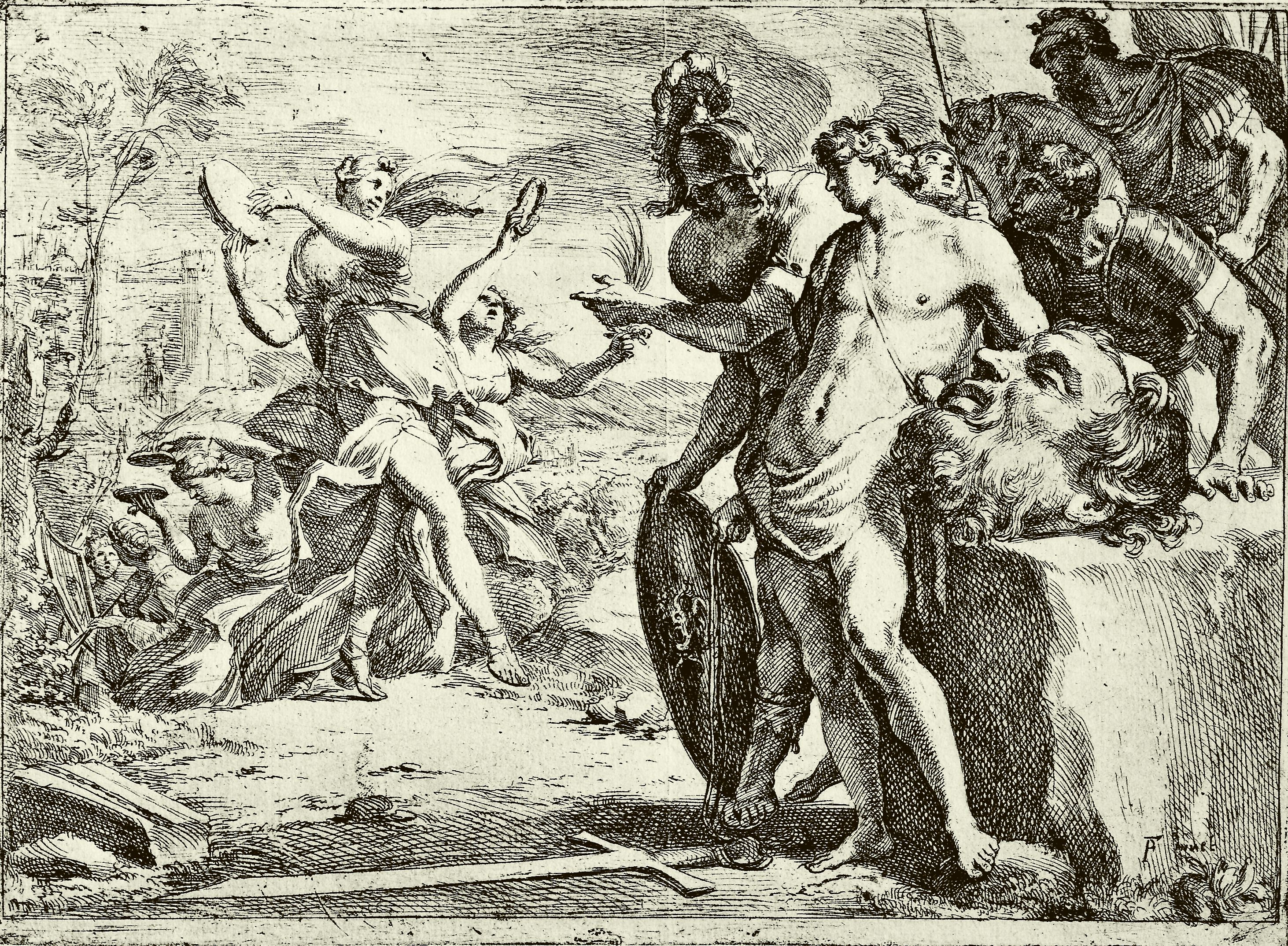 David with Goliath's head, engraving by François Perrier